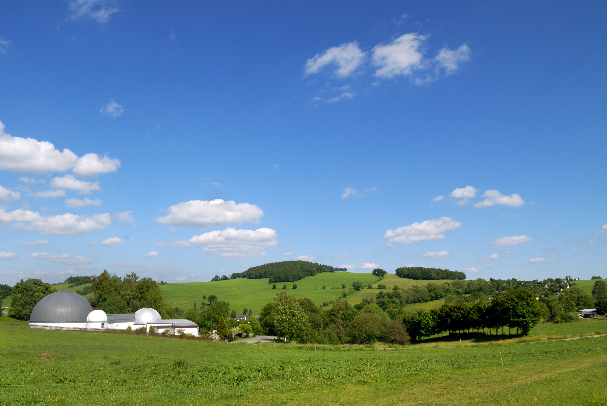 This image shows the observatory in Drebach, Saxony, Germany.